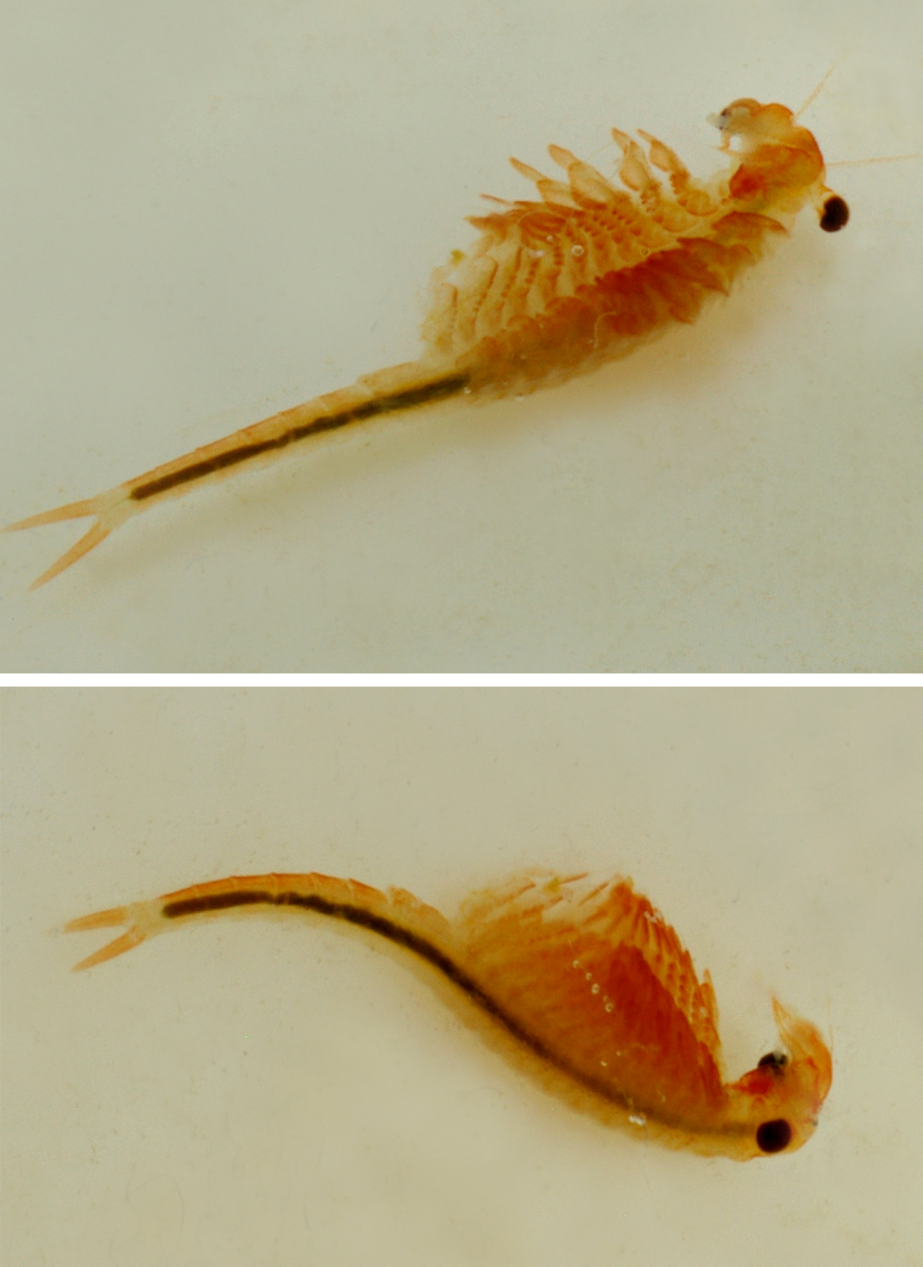 A species of Fairy shrimps (Anostraca), Eubranchipus grubii. This is a post-larval/immature/juvenile stage of about 10 mm length.